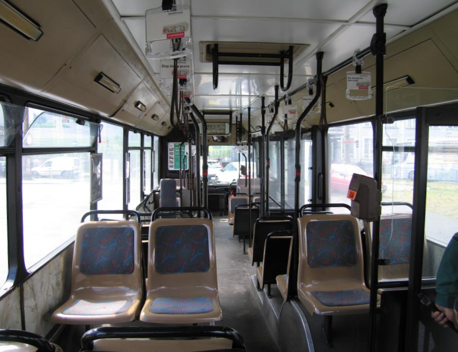 Jelcz M122 bus interior with Mercedes-Benz O405N2 chassis in Gdynia, Poland. Operator from Gdynia.